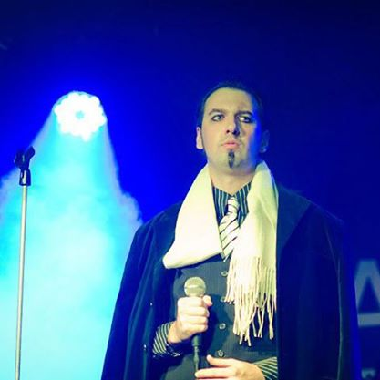 performer, actor, composer